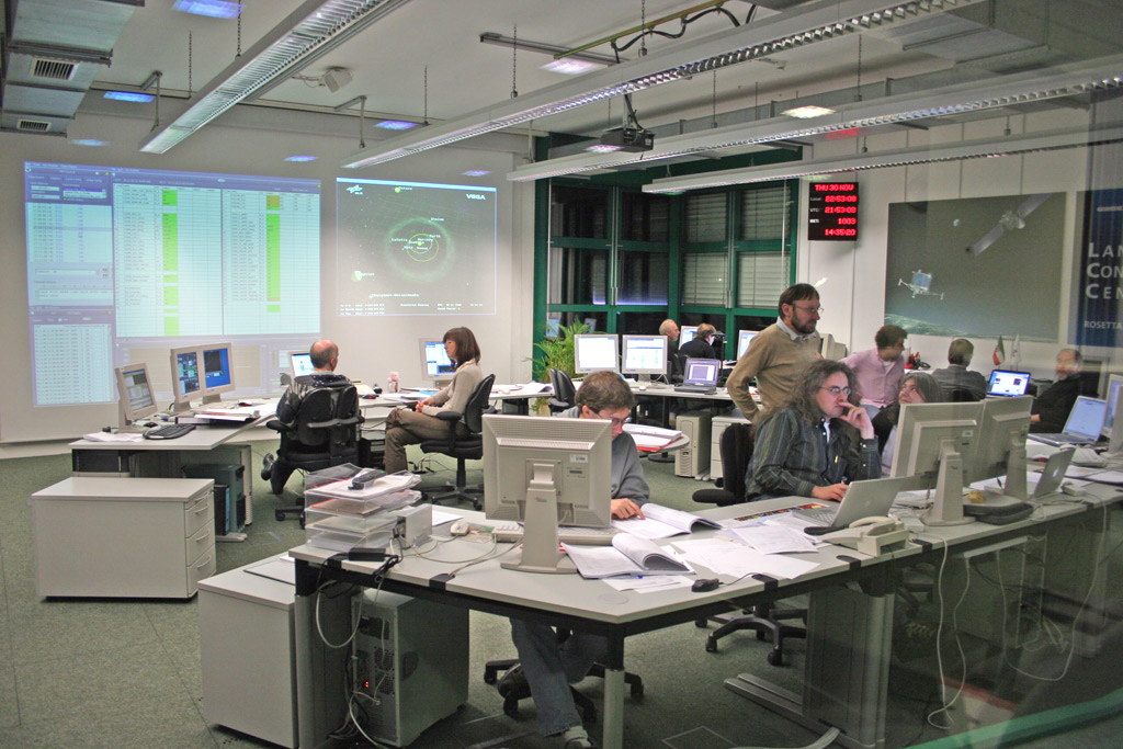 MUSC Rosetta Control room